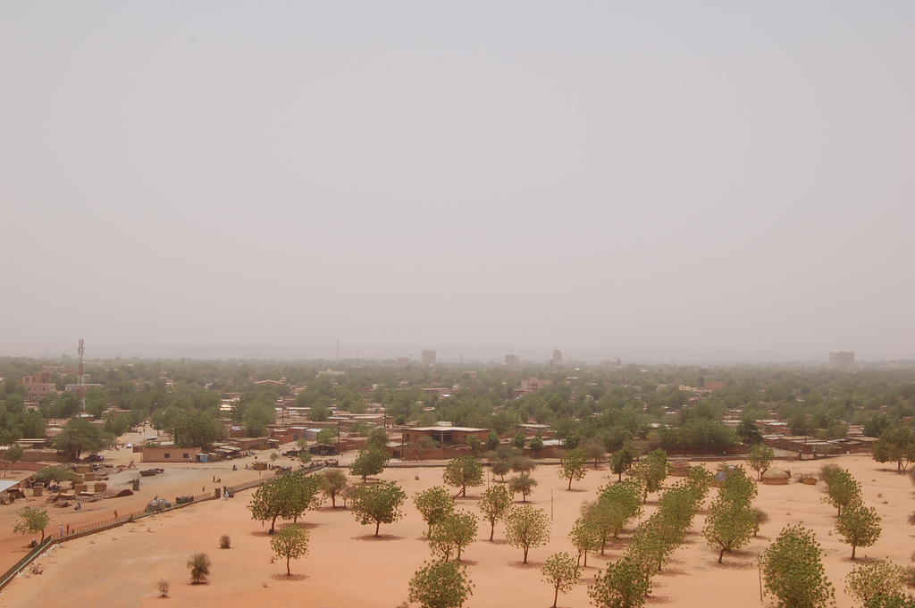 View from the Grand Mosque, Niamey, Niger. Looking south-southwest toward the city centre and the river.